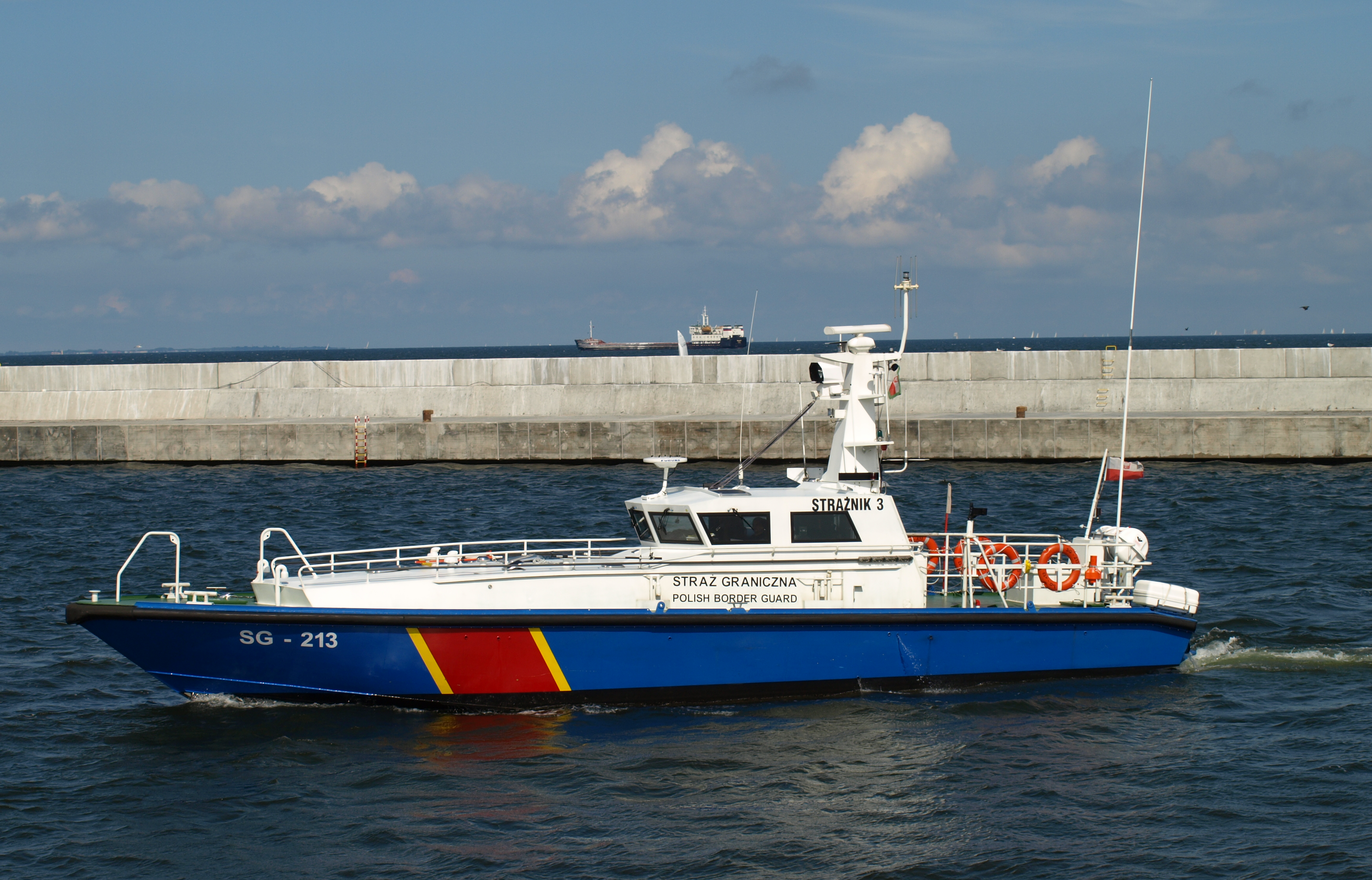 The Tall Ships' Races, Gdynia, 2009